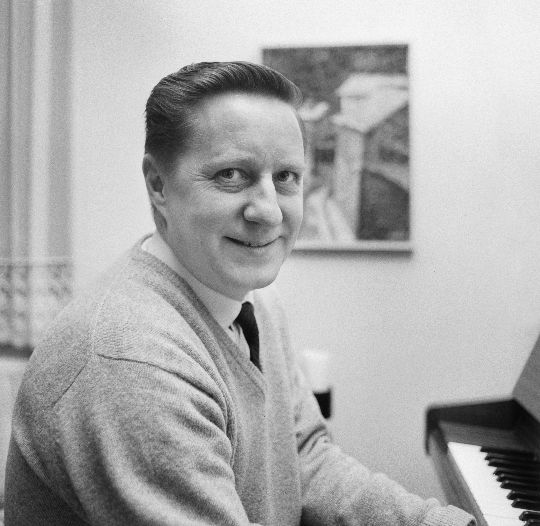 Photograph of the Finnish musician Ossi Runne (1927–) at his home.